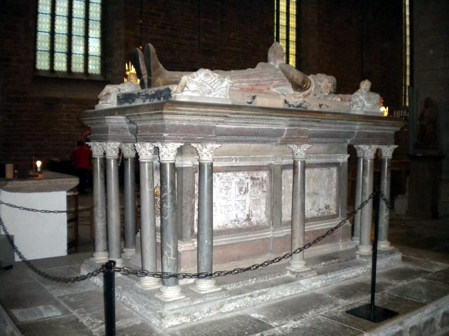 Grave of Prince Magnus of Sweden at Vadstena ChurchPlace: Vadstena, Sweden